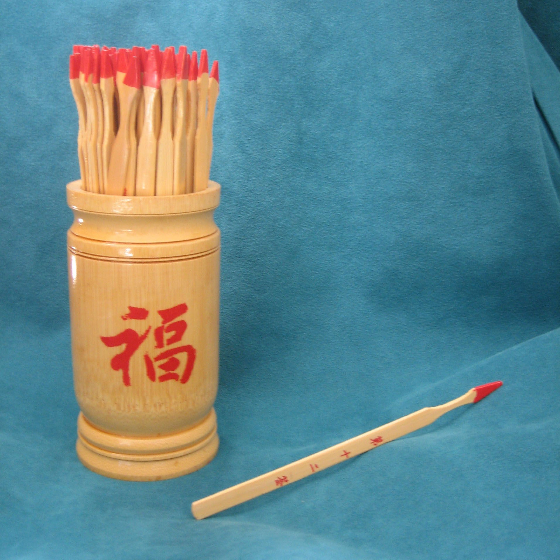 Qiantong, Chinese divination sticks